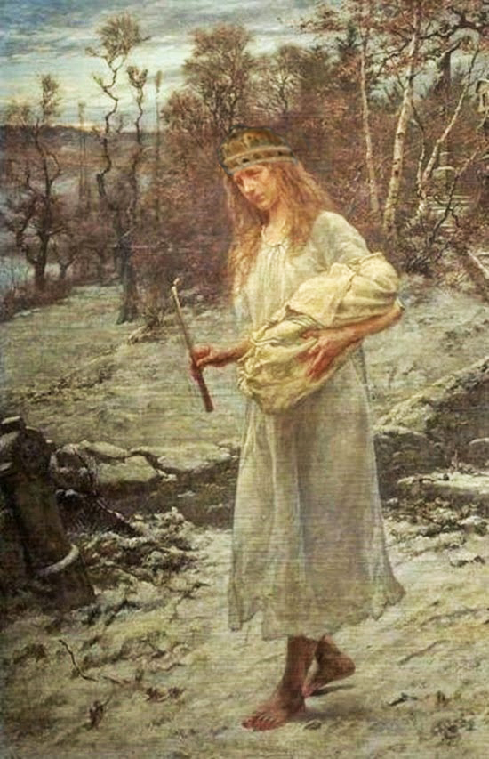 Bertha of Savoy ,daughter of Adelaide di Susa, queen of German, dressed in penance clothing barefoot,was involved in the penance in castle of Canossa after which his husband made a journey to canossa and did penance to make peace with Pope. The baby in her arm was the later Conrad II of Italy.